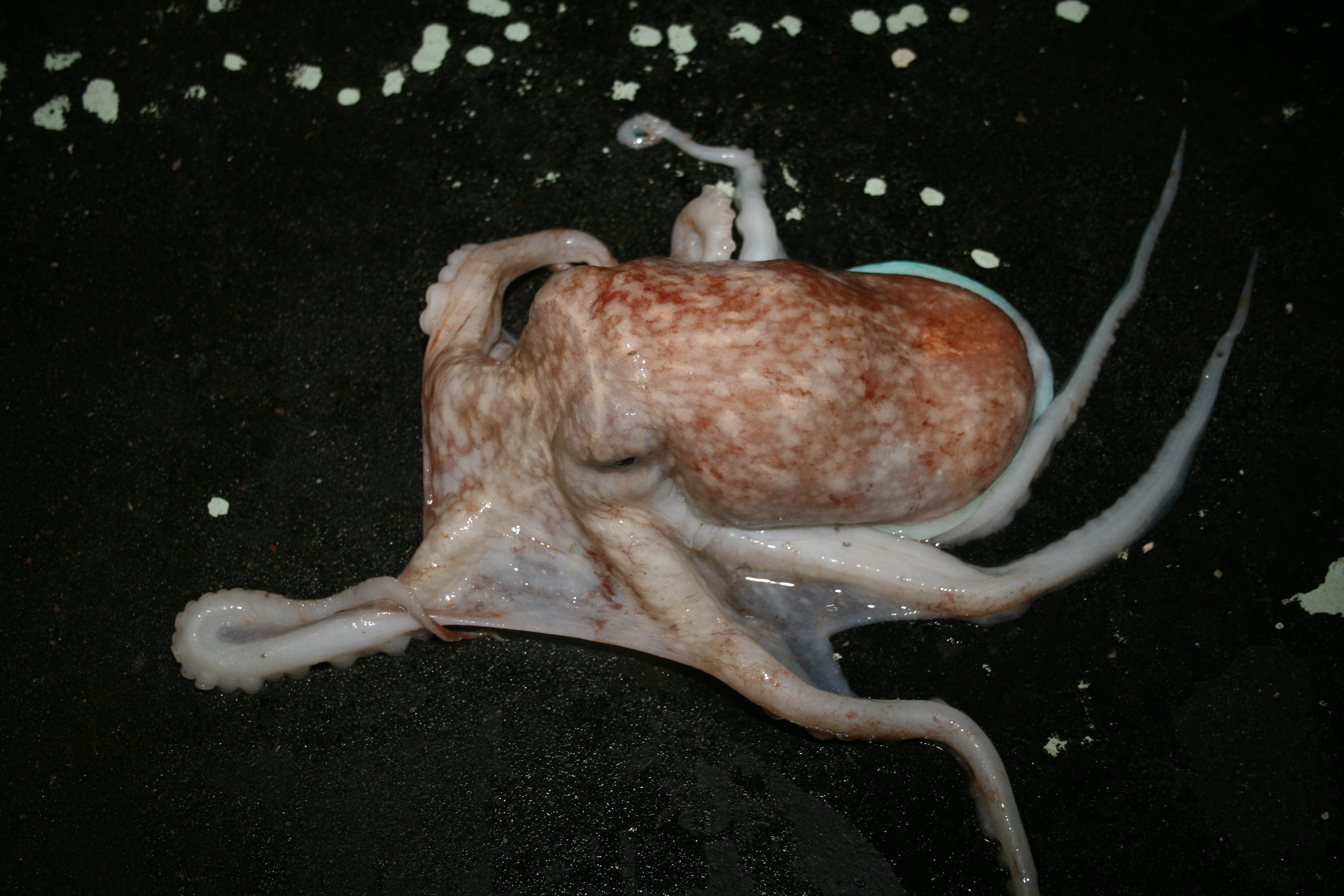 curled octopus (Eledone cirrhosa)